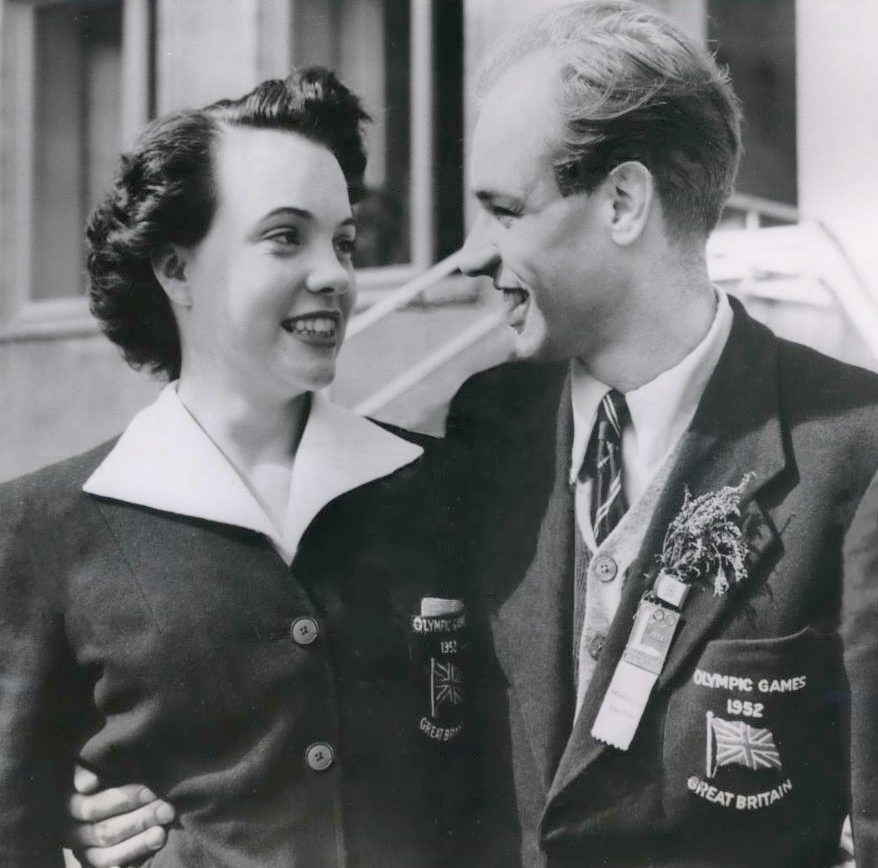 1952 Press Photo Helsinki Finland; June Foulds & RRV Paul, Bits engaged Olympics